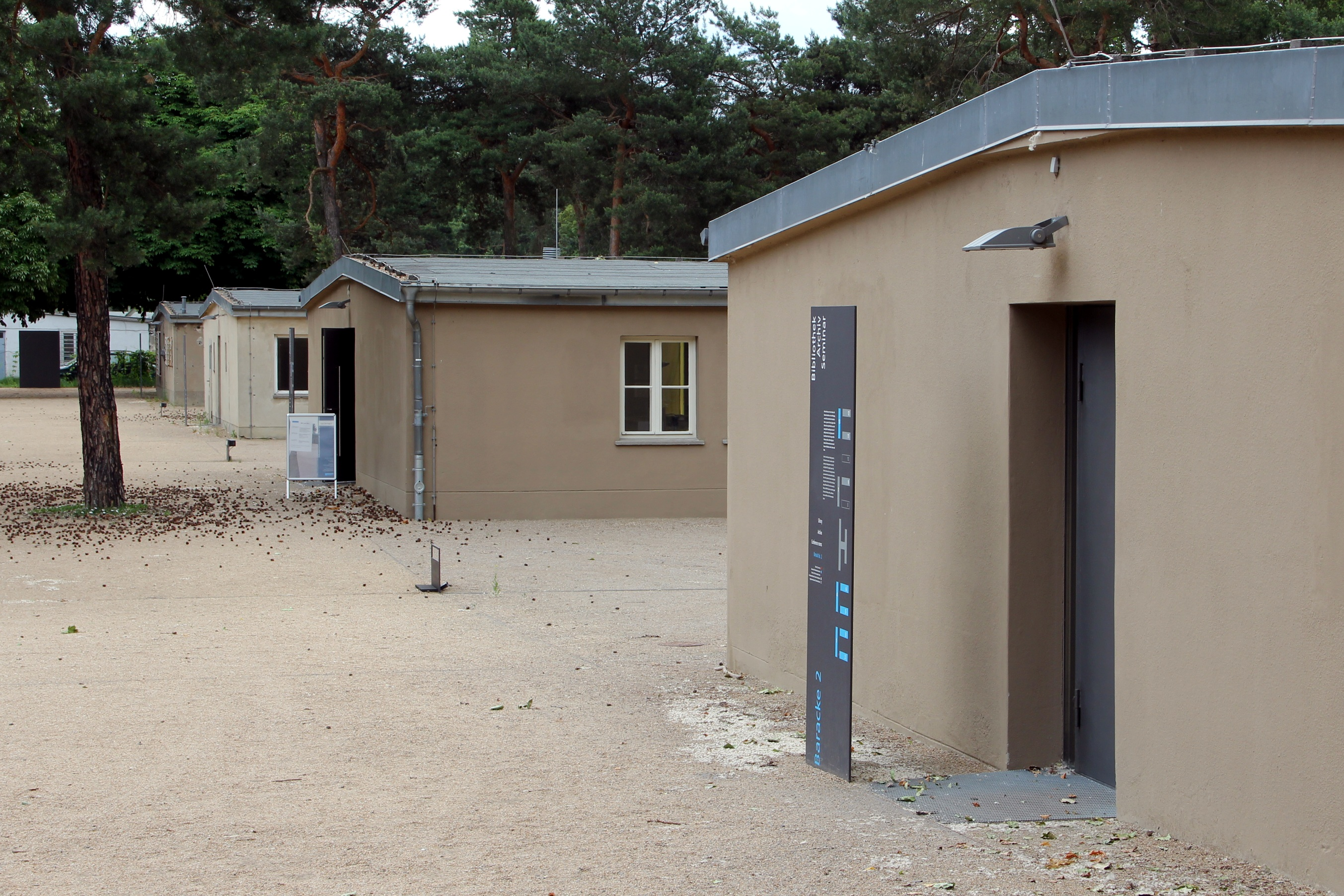 The Nazi Forced Labor Documentation Center, Barracks